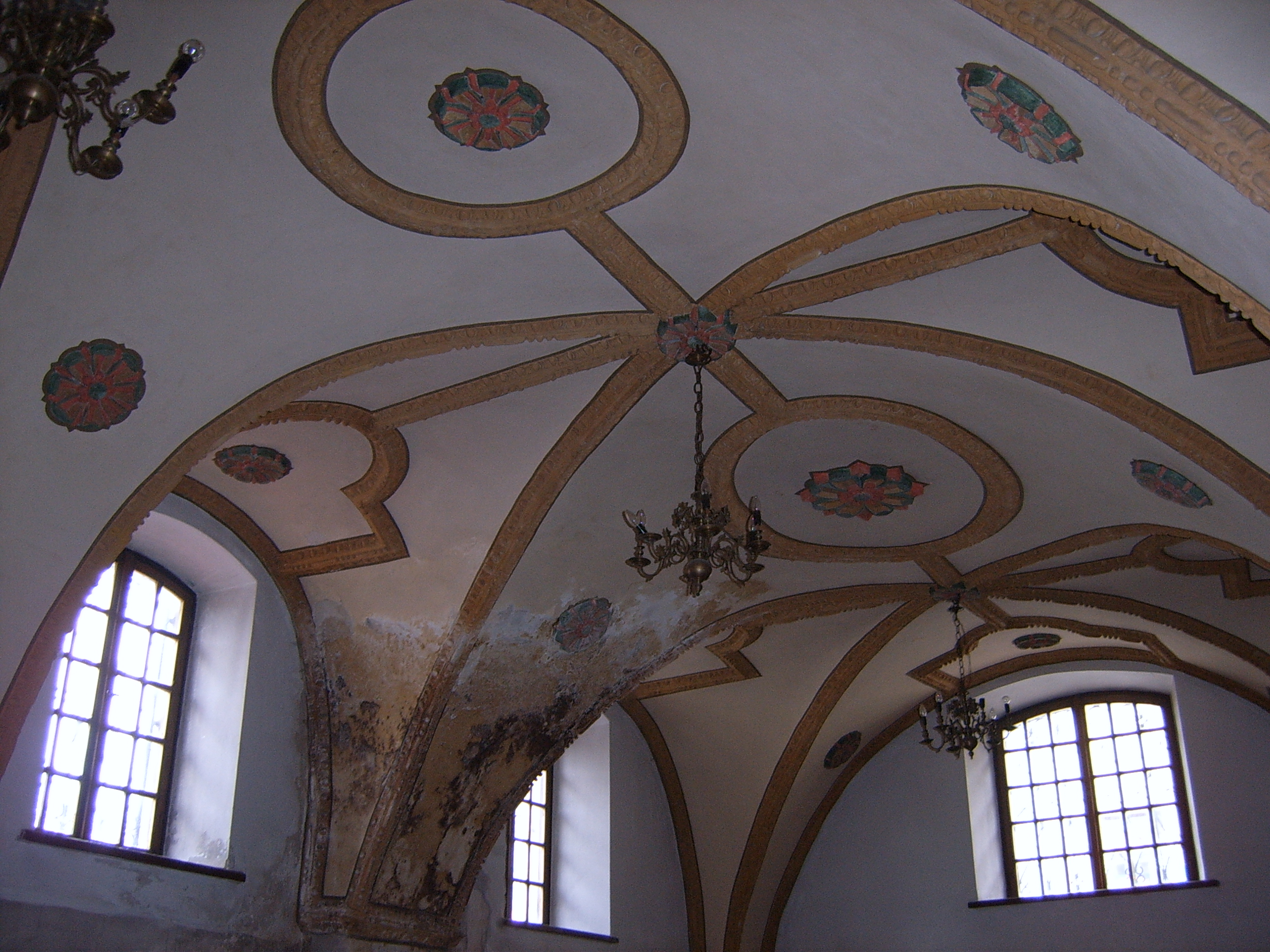 Synagogue in Zamość (inside)